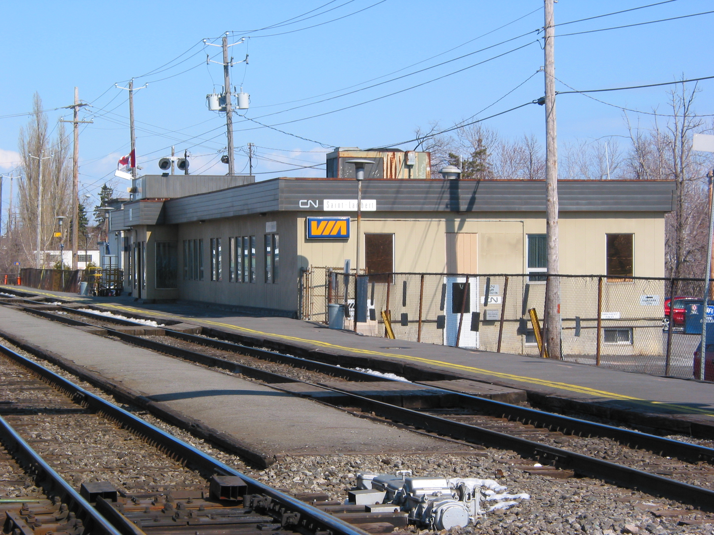 St-Lambert Via Rail train station